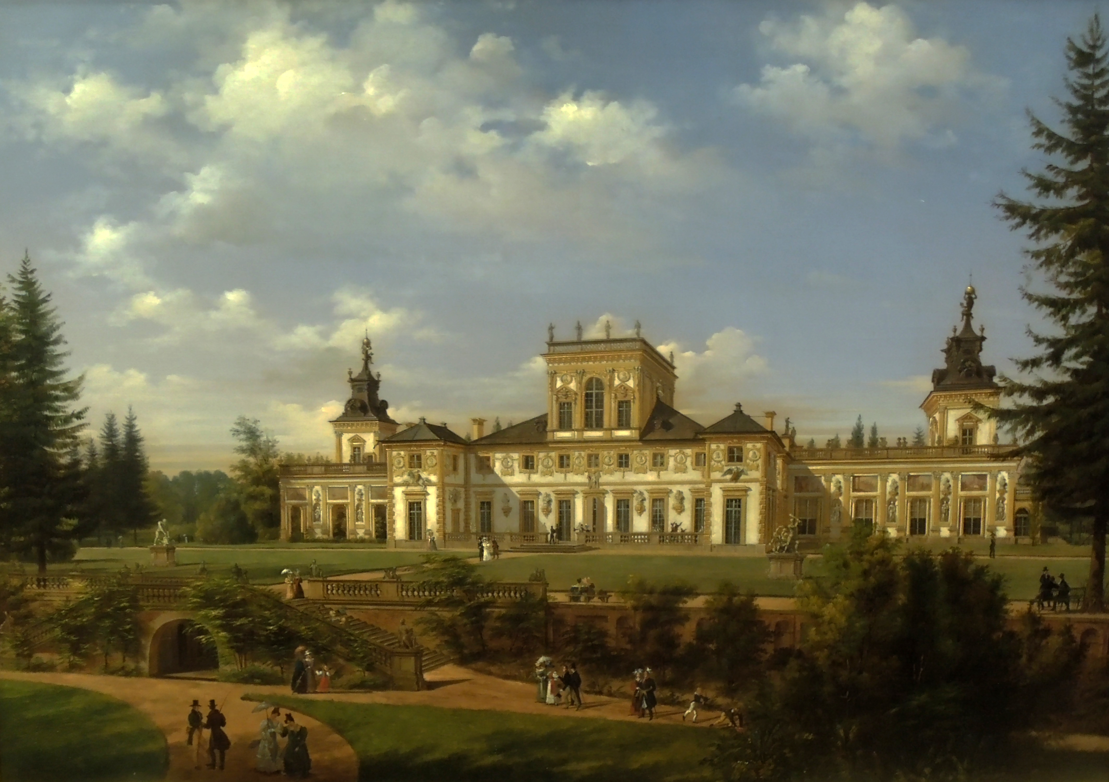 Wincenty Kasprzycki - View of the park side of Wilanów Palace, oil on canvas, before 1834